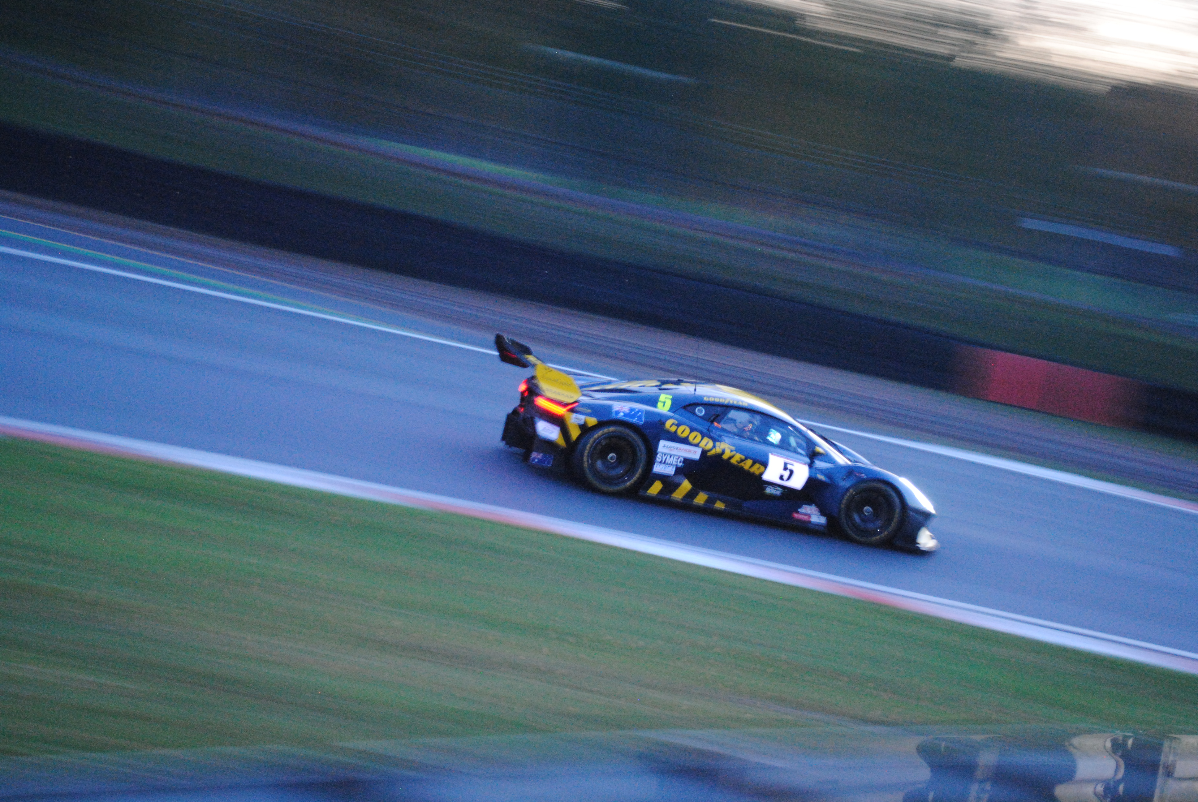 The brand new Brabham BT62, driven by Will Powell in race 2, the final round of the 2019 Britcar Endurance Championship.